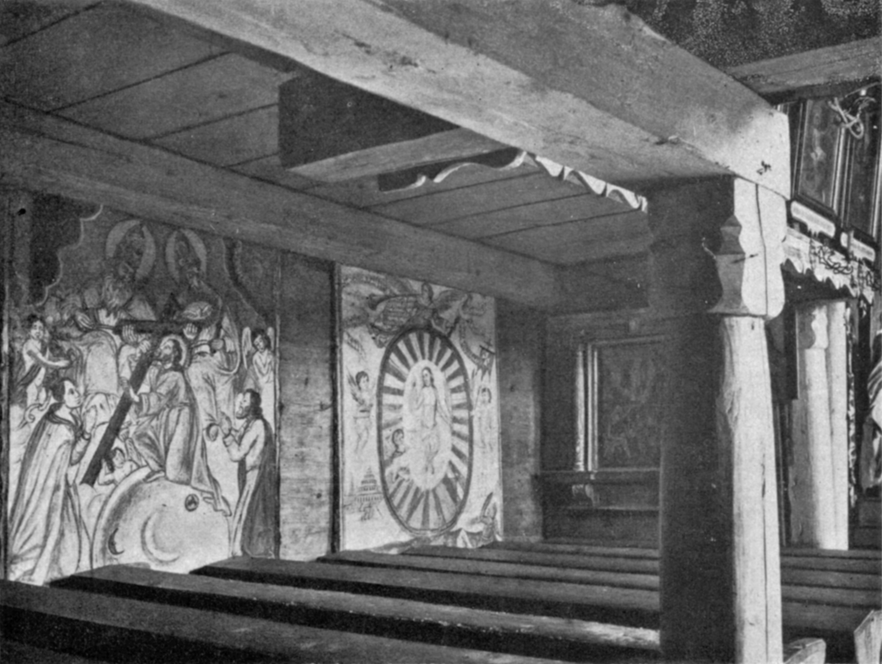 Gůty (Těšín), The Corpus Christi Church, The Interior of the Church